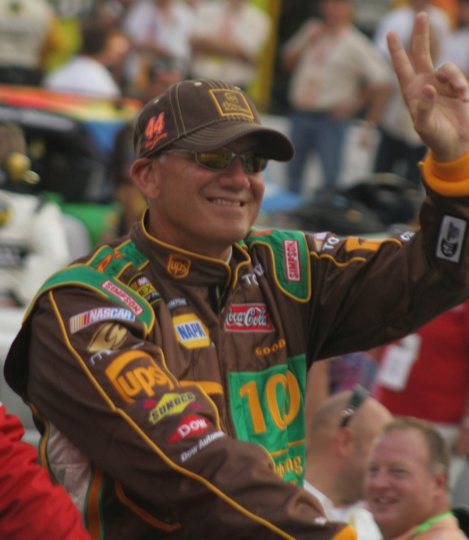 NASCAR driver Dale Jarrett in August 2007 at Bristol Motor Speedway. cropped from original